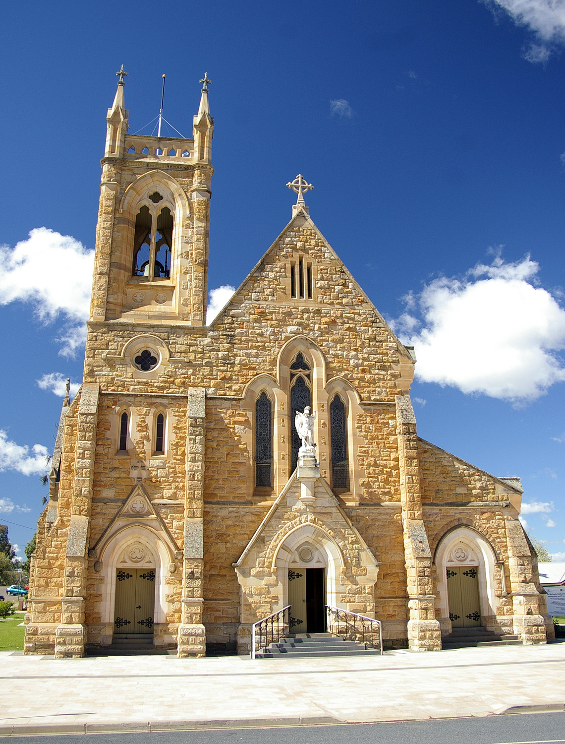 St Michael's Cathedral (Which was built in two stages, Stage one 1885-87 and stage two 1922-25) is one of 4 Victorian Gothic Sandstone Cathedrals built in New South Wales and one of the last to be built in Australia. St Michael's became a cathedral in 1917.